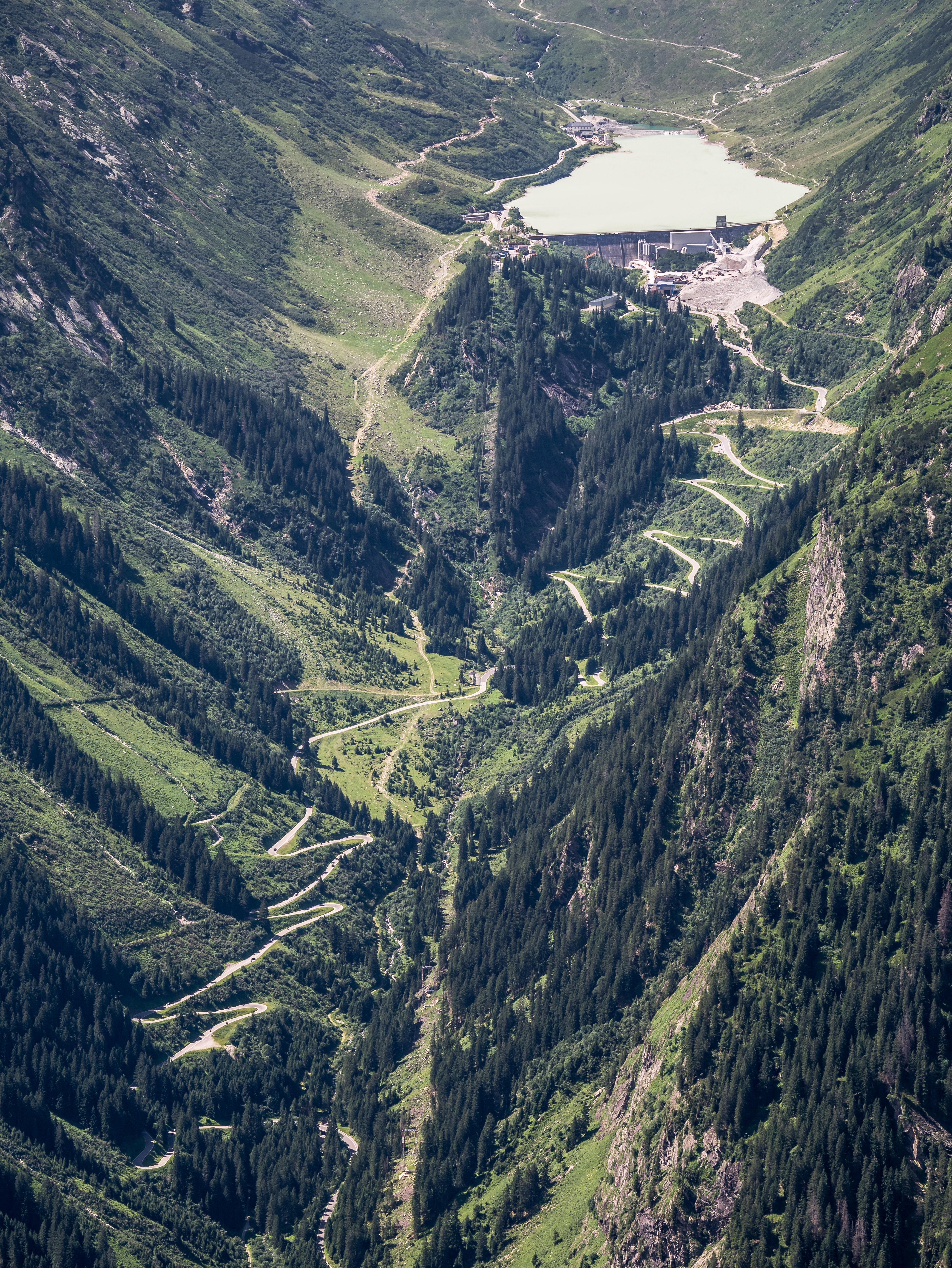 Silvretta-Hochalpenstrasse mountain road as seen from the summit of Versalspitze, Vorarlberg, Austria